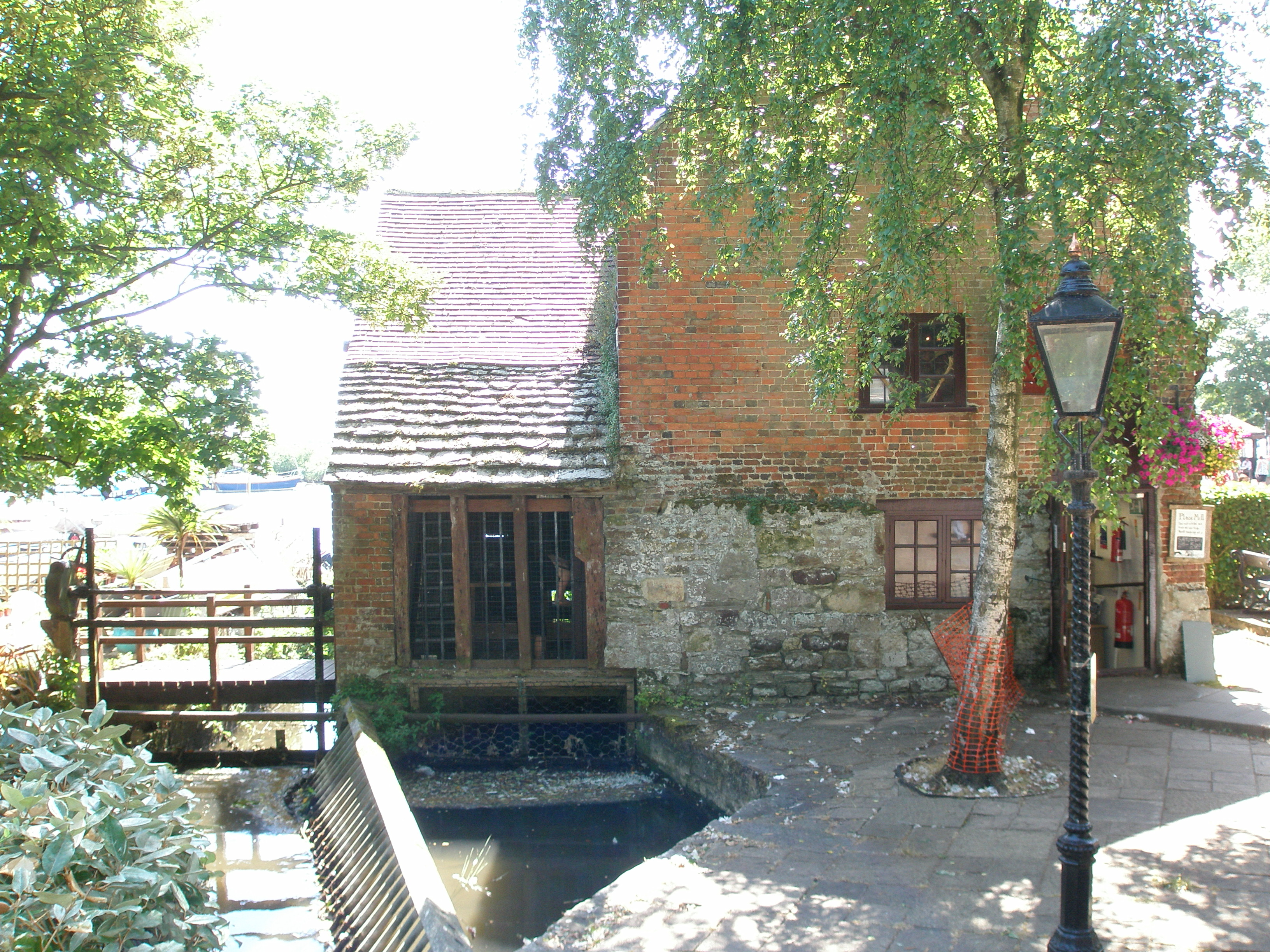 Place Mill, Town Quay, Christchurch, Dorset. Anglo-Saxon mill recorded in the Domesday Book of 1086.